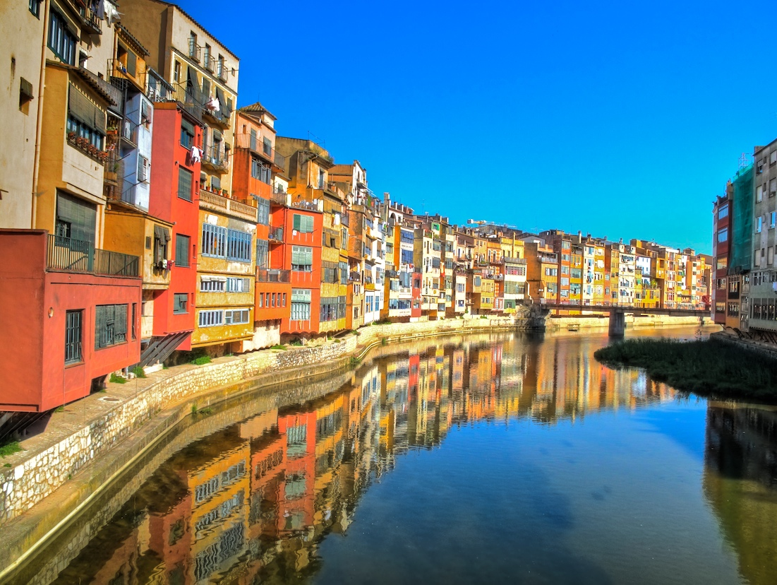 Colorful houses cling to the banks of Riu Onyar in the oldest section of Girona.